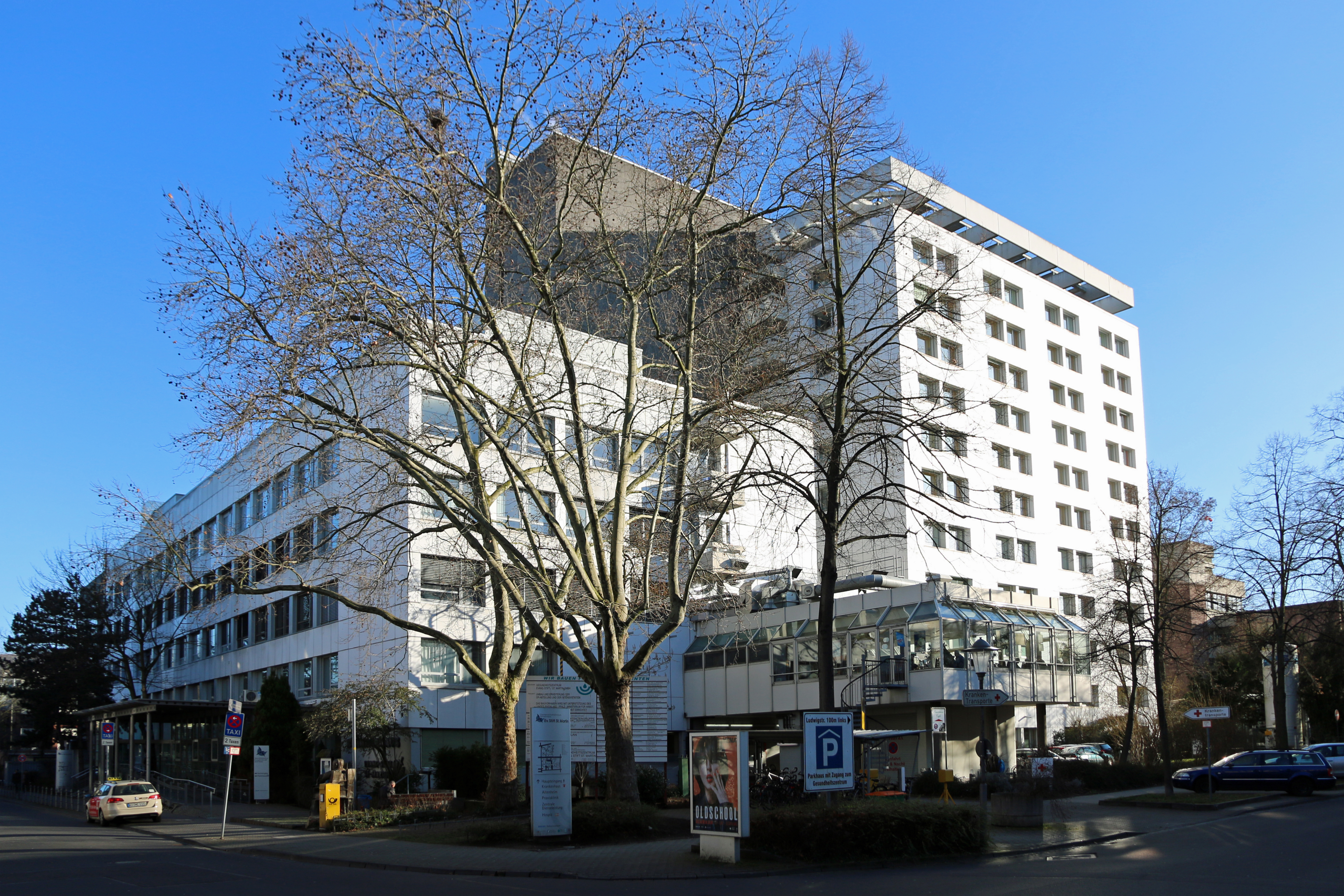 Hospital Evangelisches Stift St. Martin in Koblenz